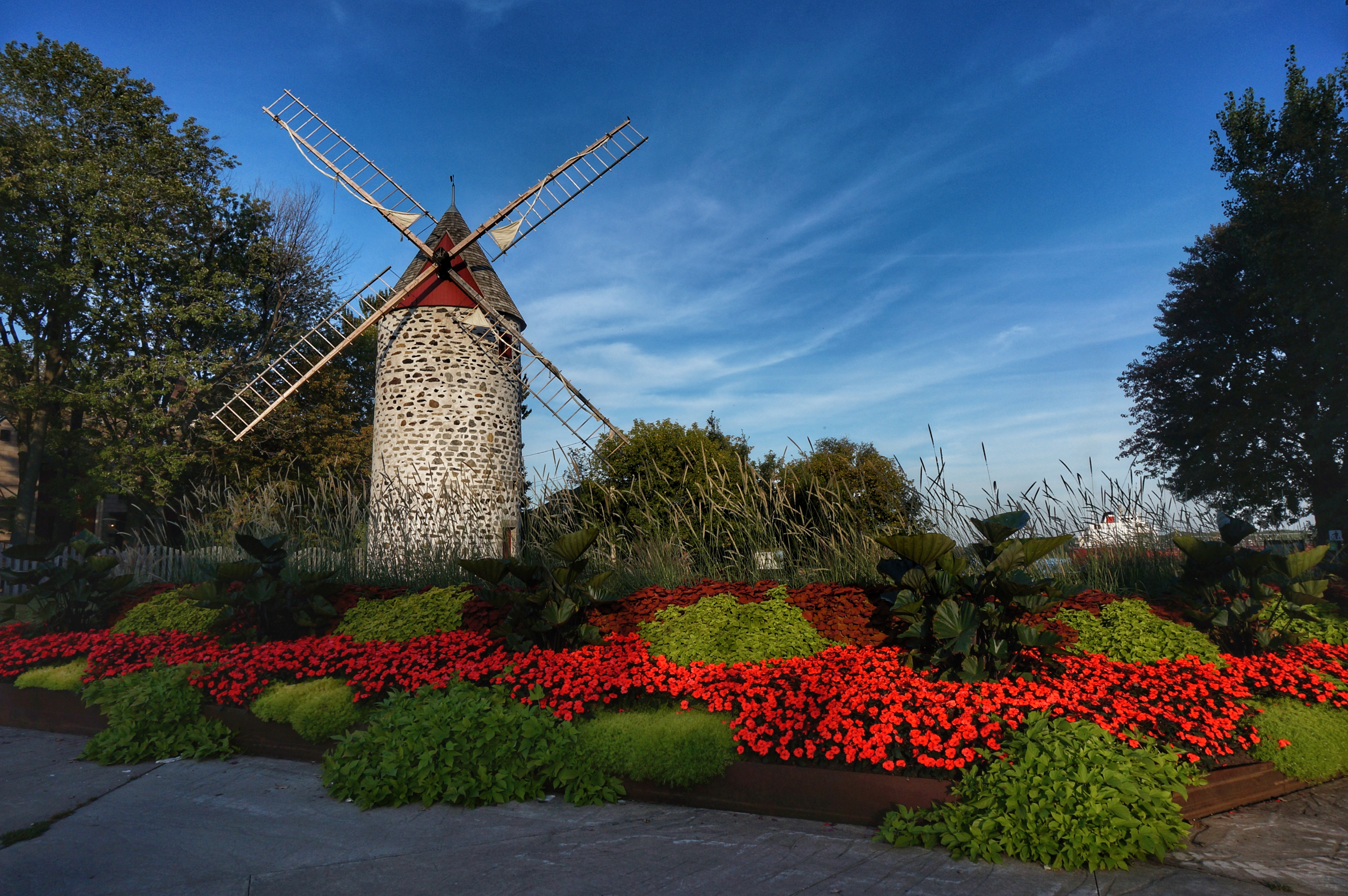 Pointe-aux-Trembles Windmill, 1718